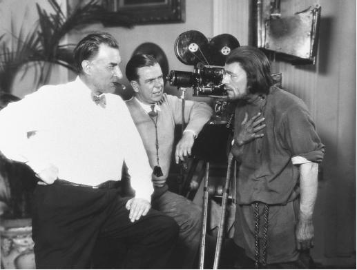 Benjamin Christensen (left) directing Lon Chaney in the film Mockery (1927) with cameraman Merritt B. Gerstad in the center.